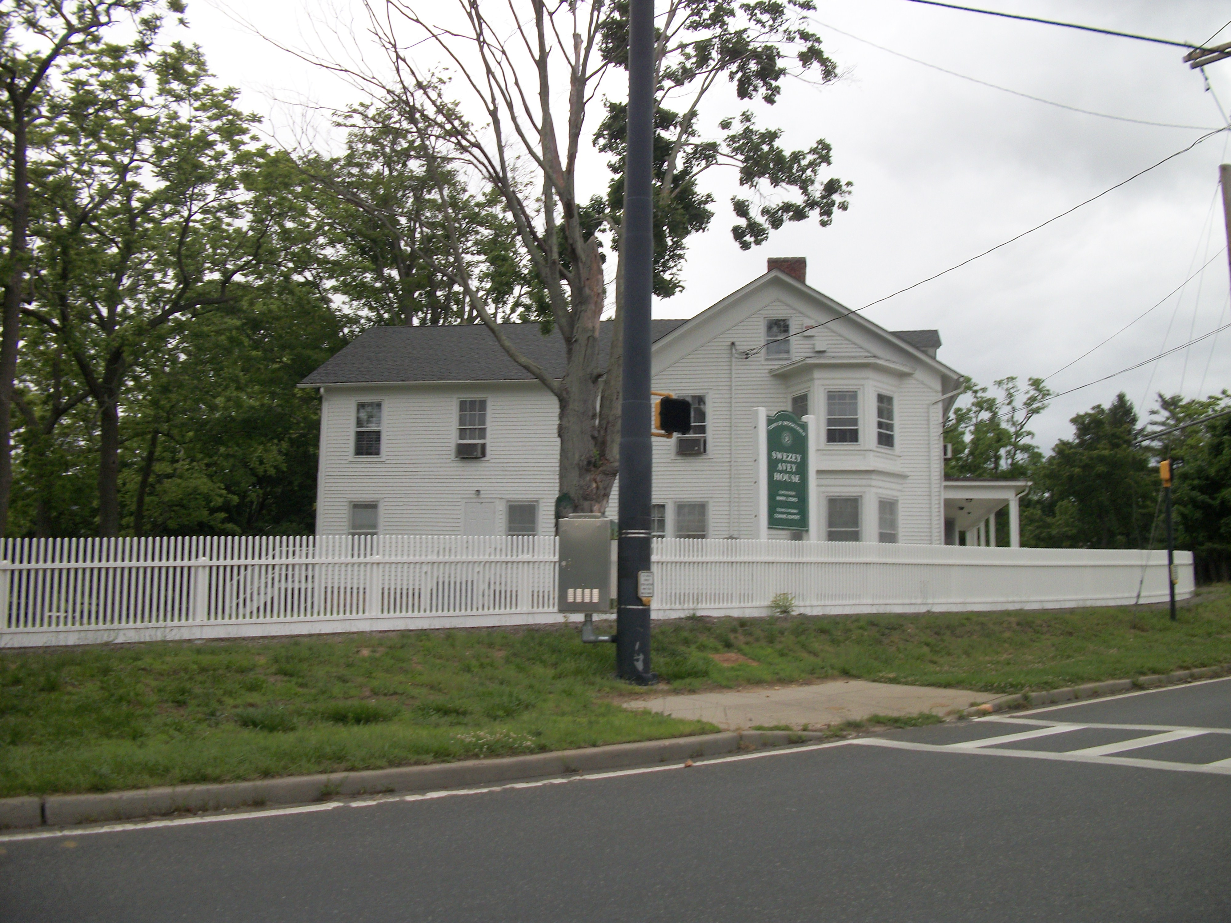 The historic Swezey-Avey House on the corner of Main Street and Mill Road and Town of Brookhaven's Yaphank Beach in Yaphank, New York.